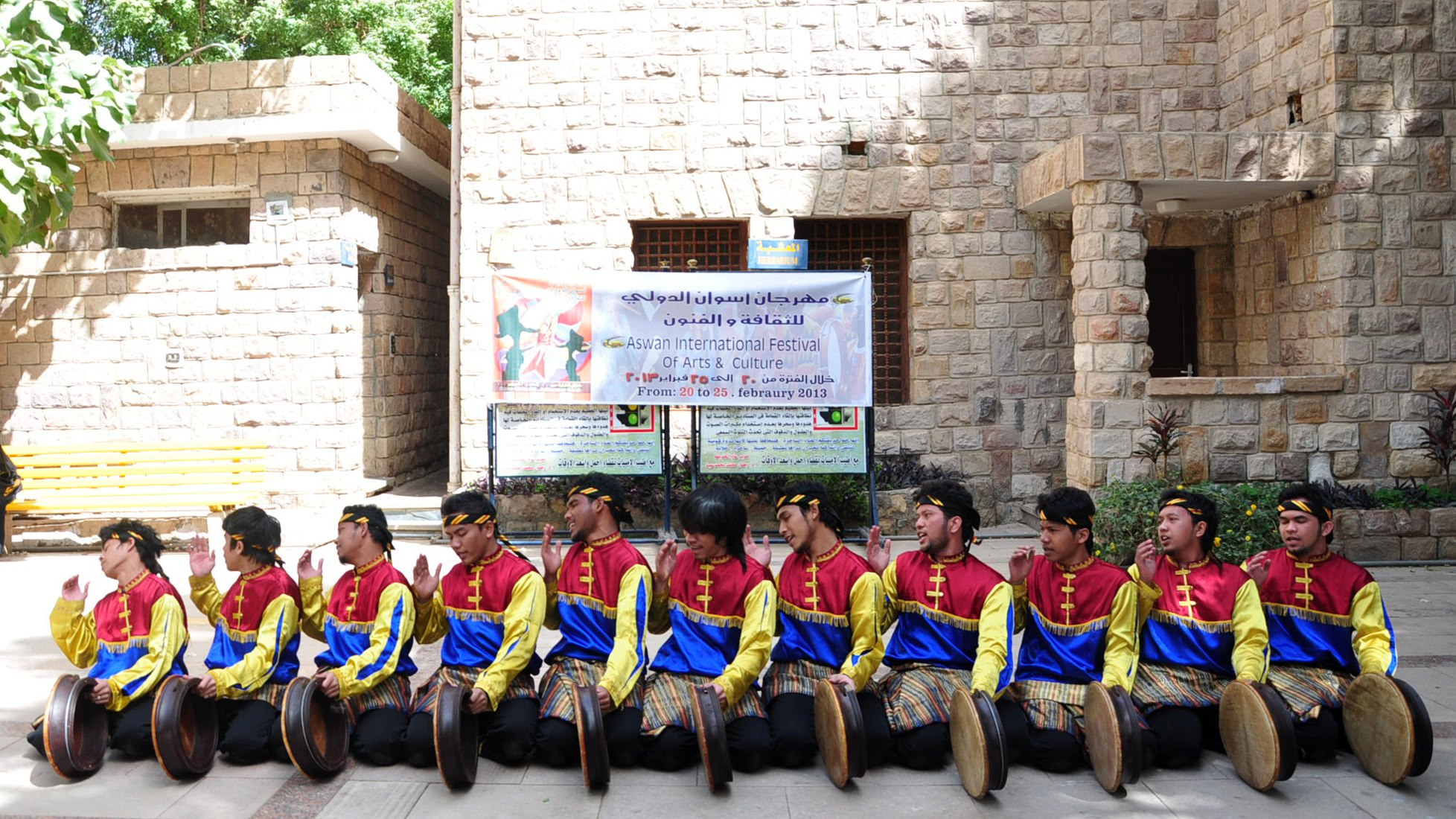 Rapa'i Geleng Dance in Egypt